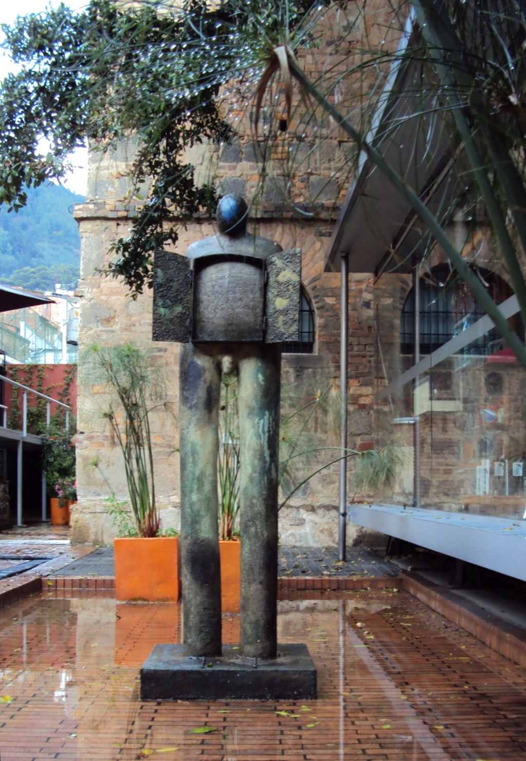 A bronze sculpture by Jim Amaral in the sculpture gardens of the Museo Nacional